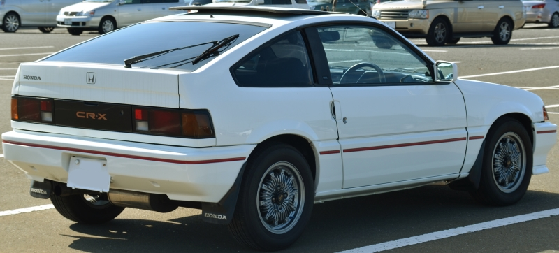 Honda Ballade Sports CR-X 1.5i